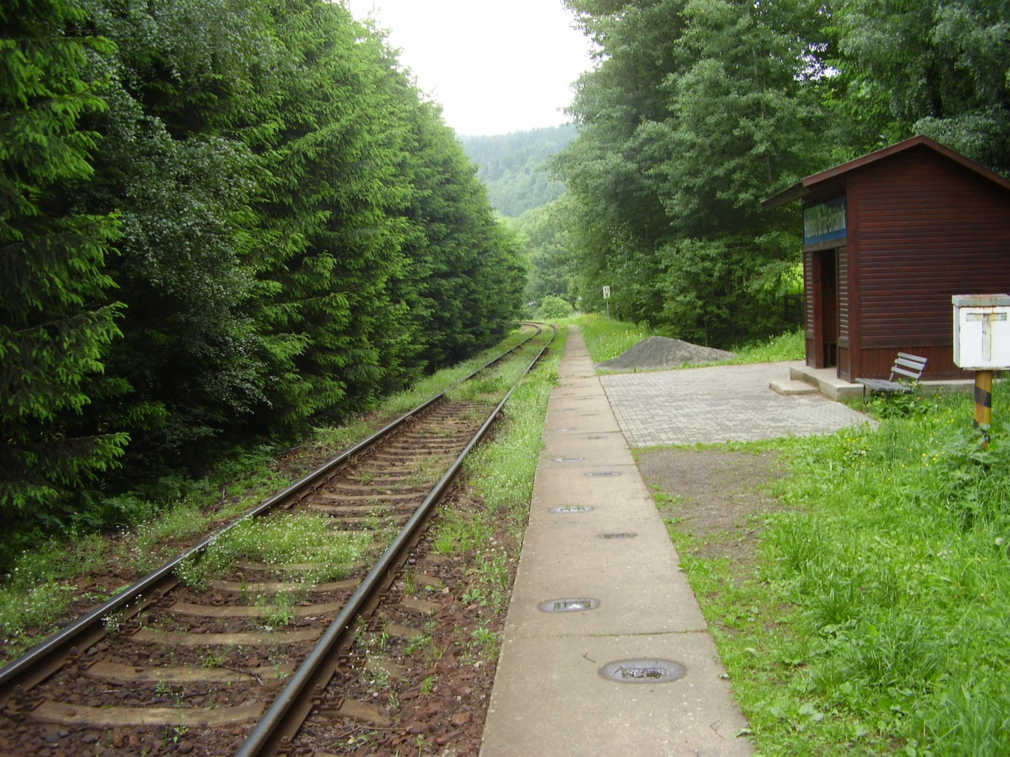 Train station Hojsova stráž-Brčálník and rails to Klatovy